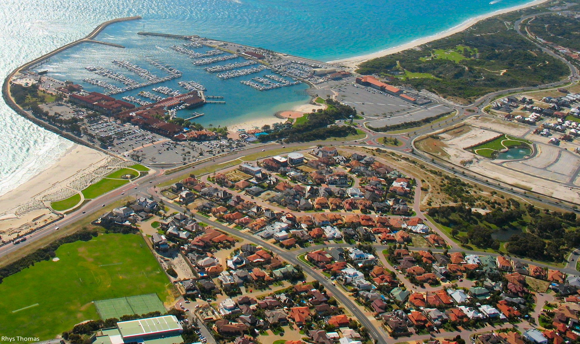 Sorrento and Hillarys boat harbour from the air. This is an aerial view of Sorrento, a coastal suburb of Perth, Australia.